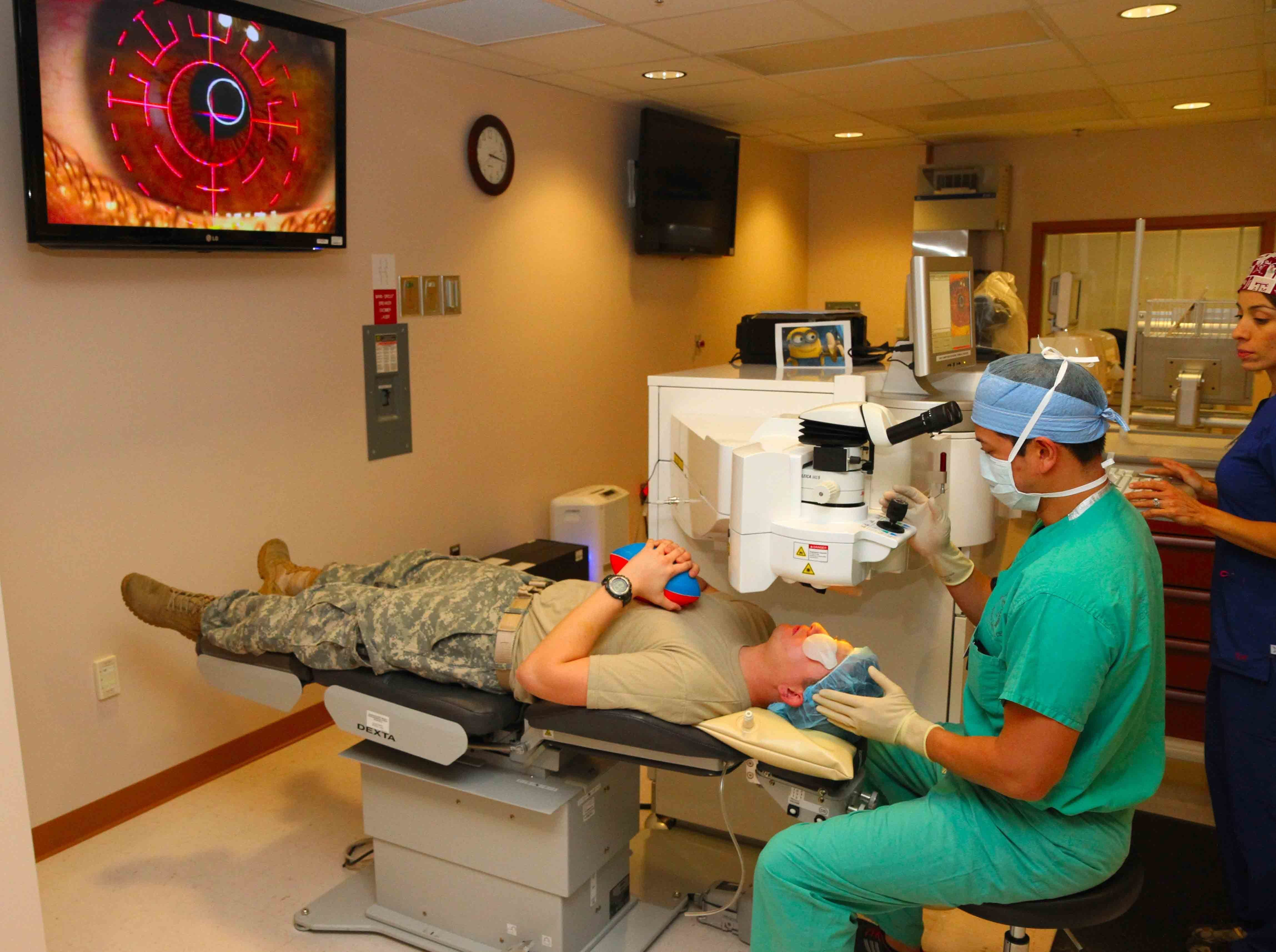 Maj. Tam Dang, (center), officer in charge of the William Beaumont Army Medical Centers' Warfighter Refractive Eye Surgery Center, Fort Bliss, Texas, uses an eximer laser to perform photorefractive keratectomy surgery on Spc. Daniel Bocanegra's, (left), left eye as Jessica Schnieder, (right), a refractive laser technician, assists. Bocanegra, a medic assigned to Company B, WBAMC, opted for the elective surgery due to his poor eyesight and his want to be glasses-free while performing his job. (U.S. Army Photo by Sgt. James Avery, 16th Mobile Public Affairs Detachment)